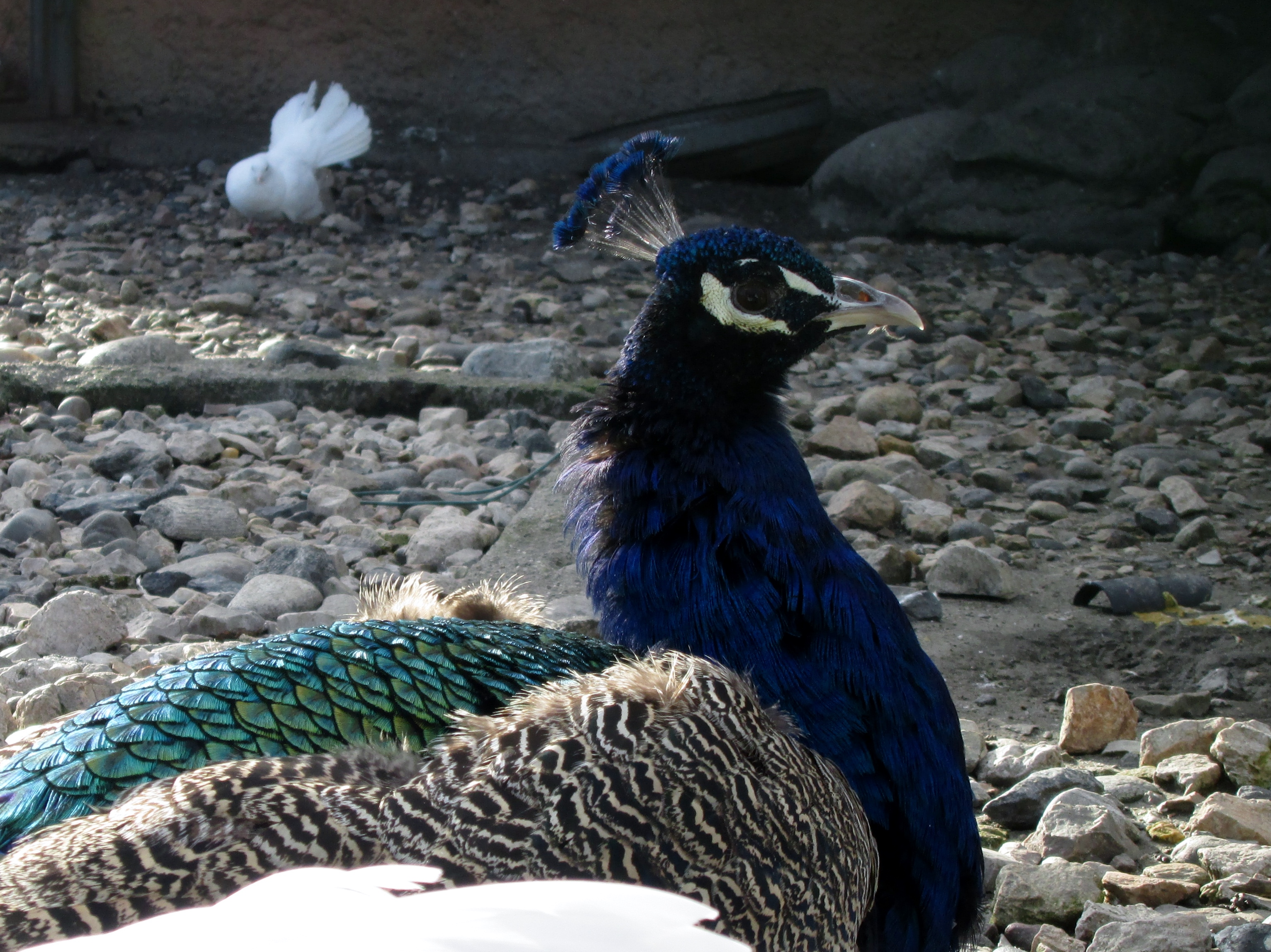 Indian Peafowl in Pombia Safari Park ITALY